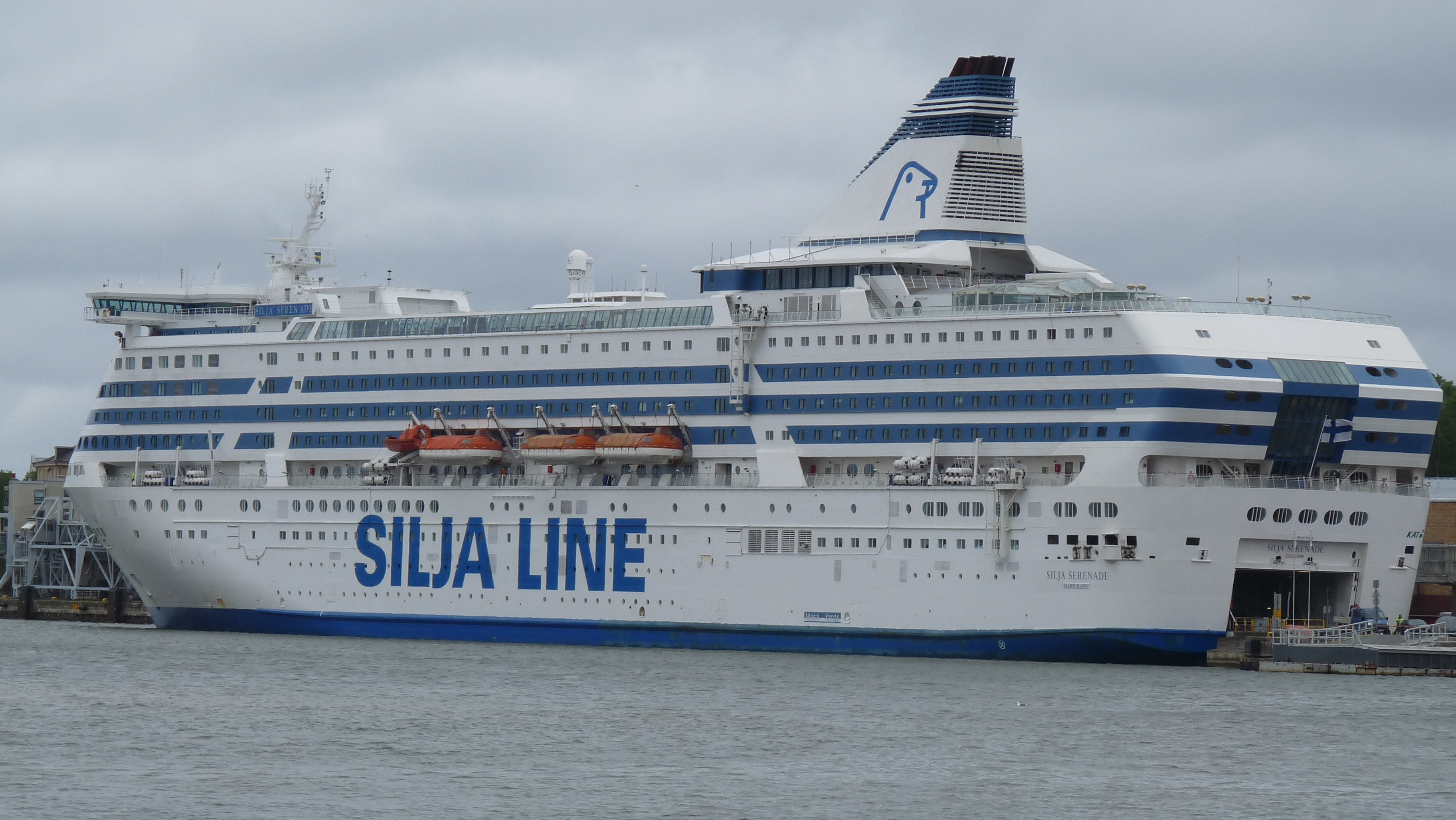 Helsinki, Finland